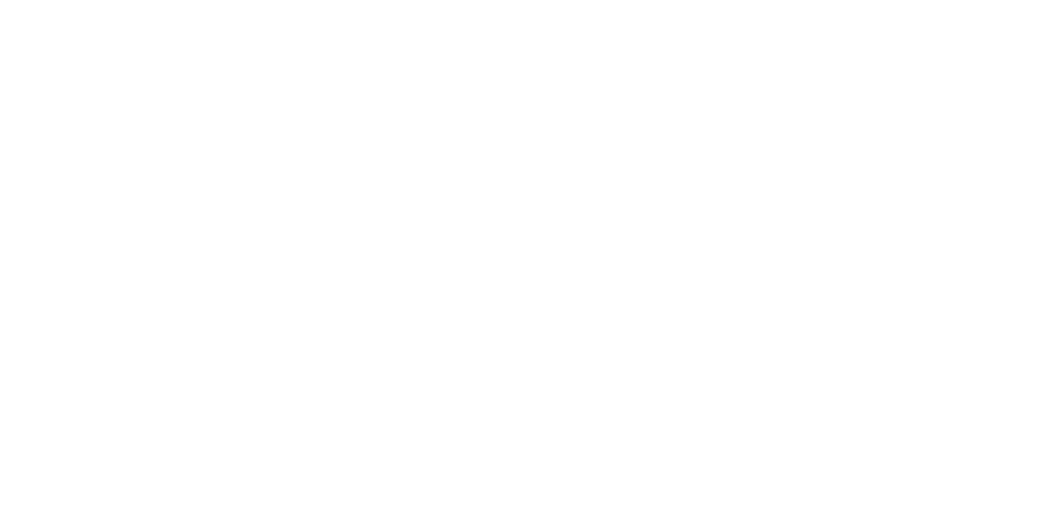 Earth Cloud Maps 2K for Celestia.